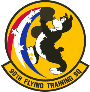 90th Flying Training Squadron emblem